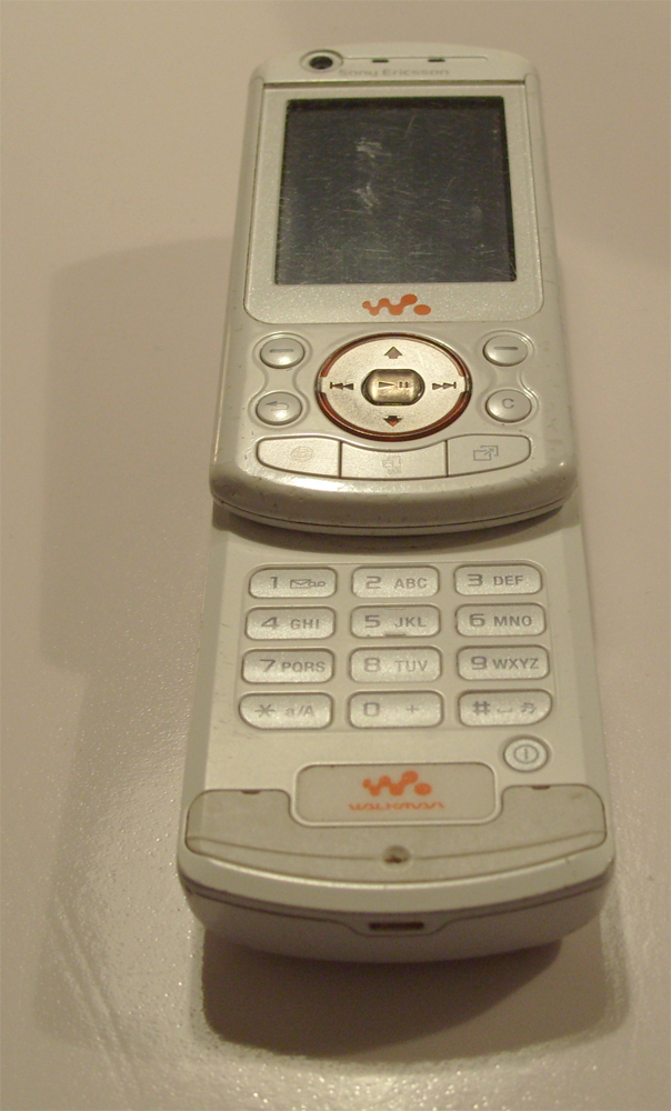 Sony Ericsson W900i